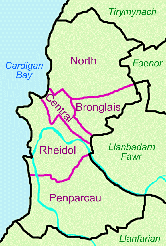 Map of the wards which make up Aberystwyth Town Council, also showing neighbouring community councils.